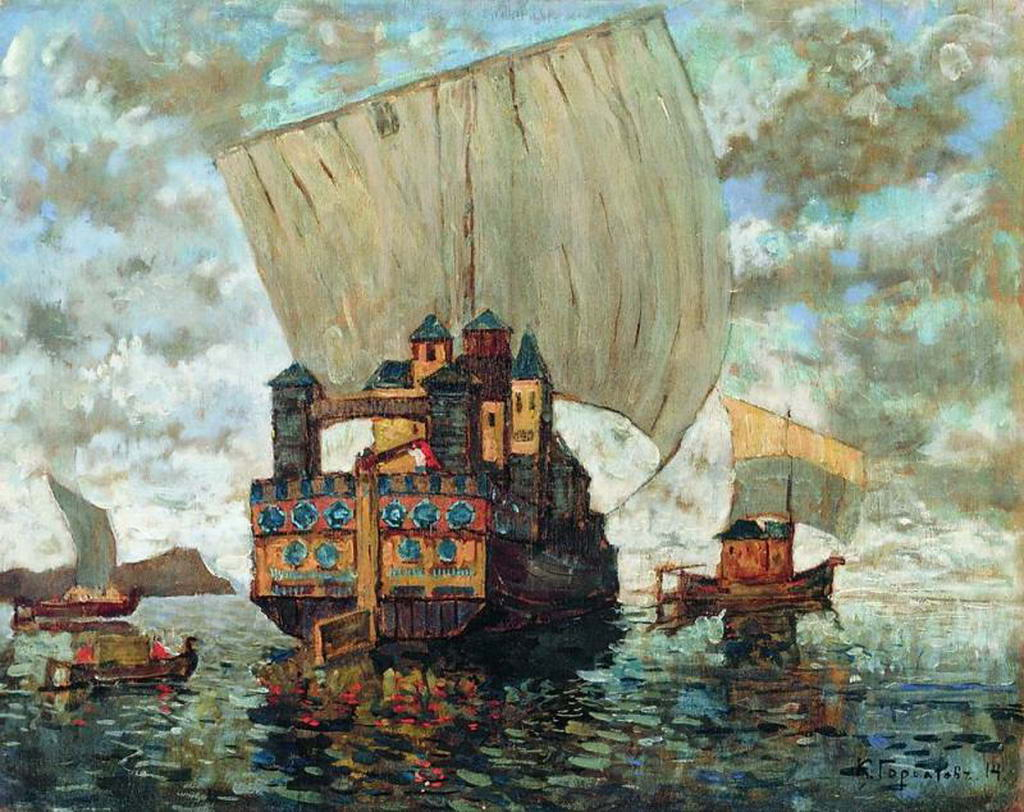 This is picture by russian painter Konstantin Gorbatov Беляны (Belyany)